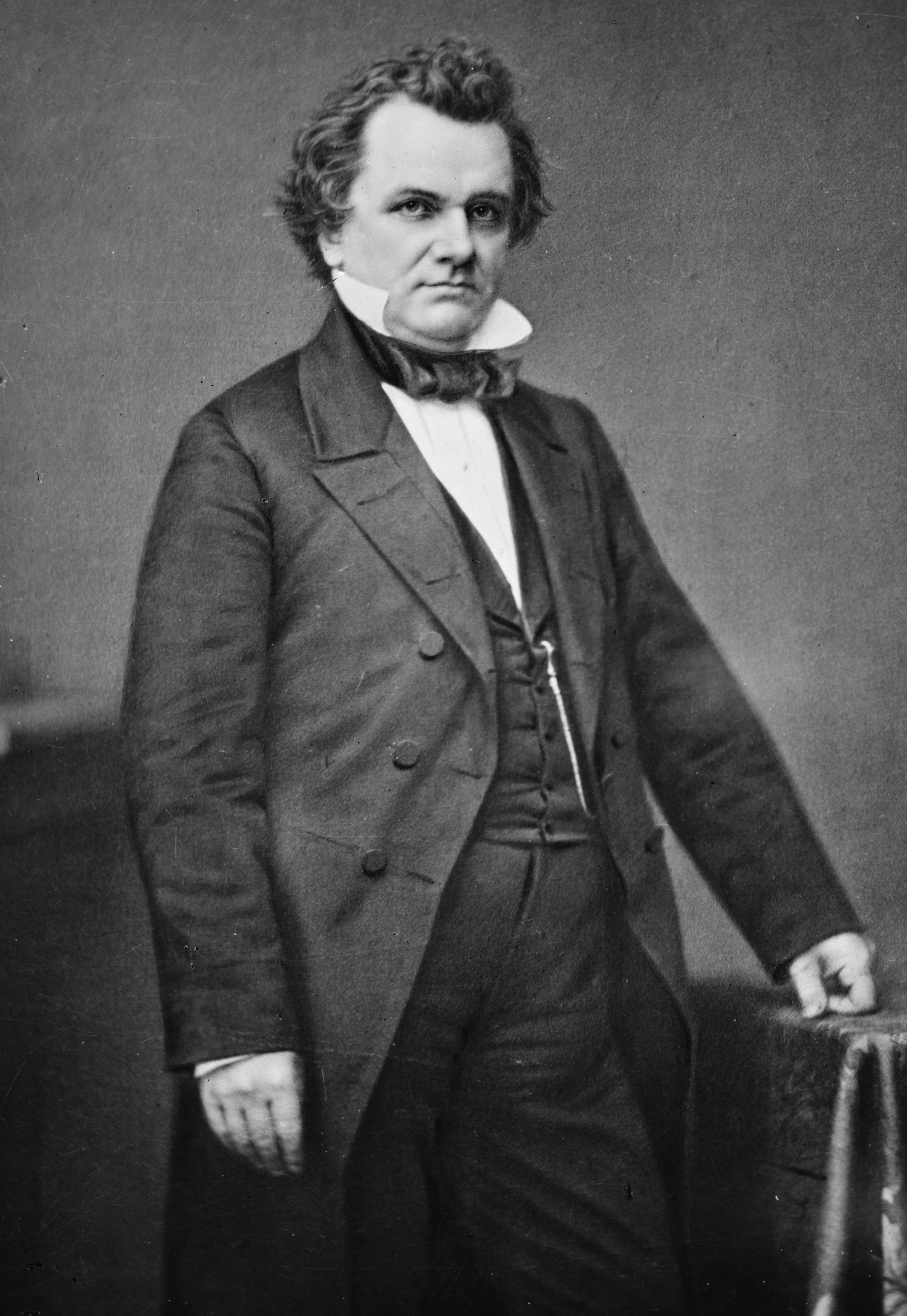 Photograph of Stephen A. Douglas taken between 1855 and 1861